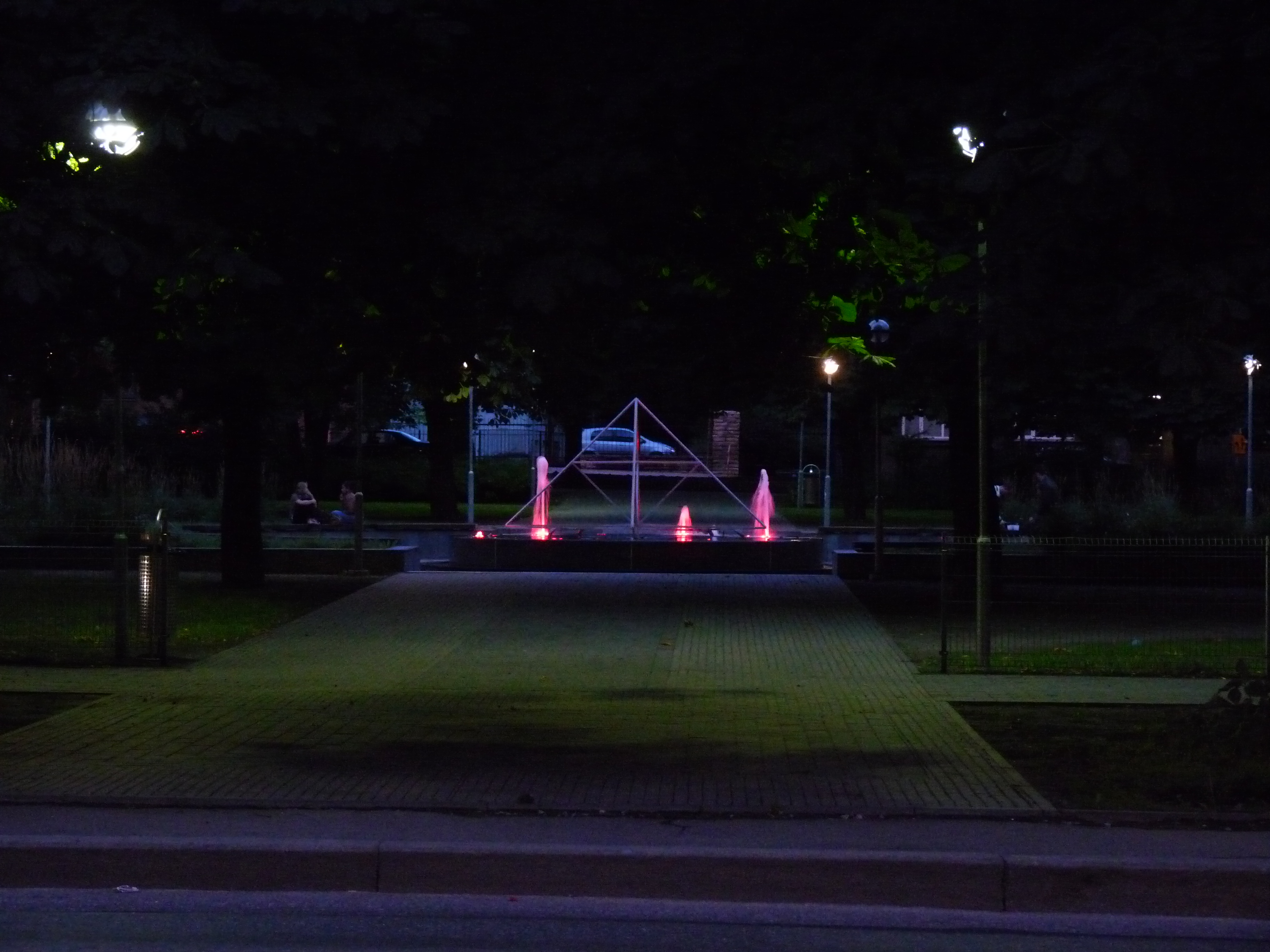 Fontain in Tallinn between Gonsiori, Kunderi, Pronksi and Kreutzwaldi streets